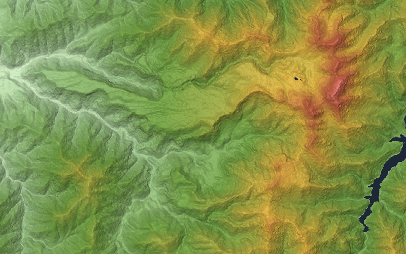 Tateyama Volcano and Tateyama Caldera in Hida Mountains, Honshu, Japan. Tateyama Volcano as known as Midagahara Volcano.